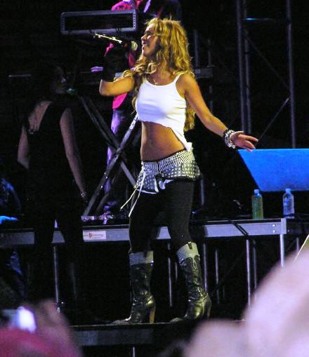 Anahí in the Reventon Superestrella 2006 at the LA Coliseum